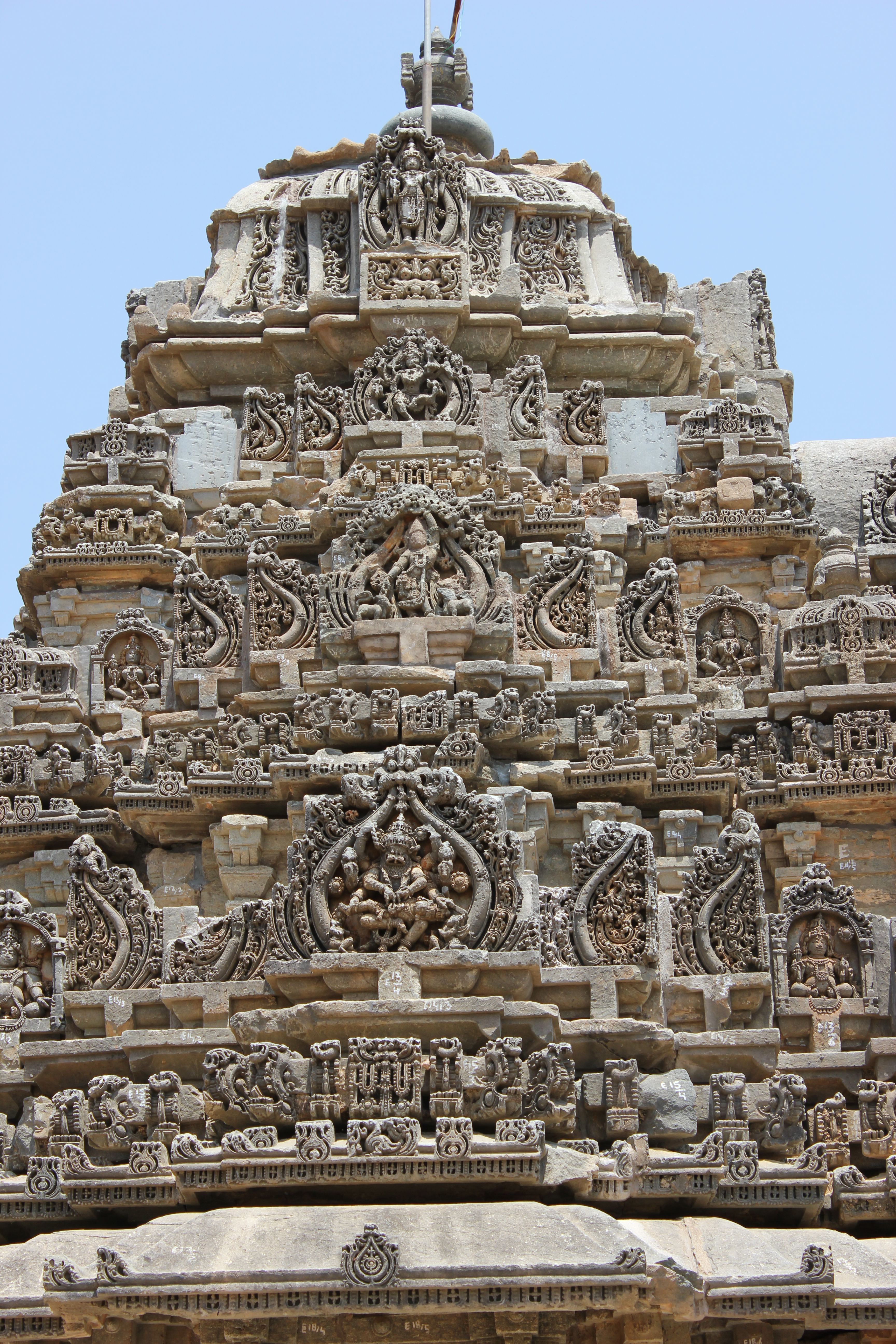 This photo was taken by me (Dinesh Kannambadi) at the Lakshmi Narasimha temple in Vignasante, Tumkur district, Karnataka state, India. It was built in 1286 CE during the rule of the Hoysala Empire King Narasimha III.